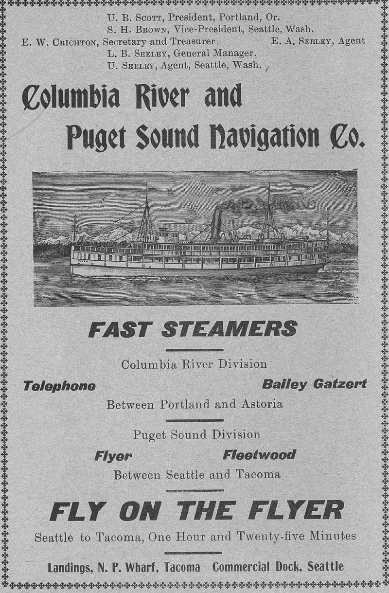 Advertisement for the Columbia River and Puget Sound Navigation Company, listed in Polk's directory for Seattle, 1900.